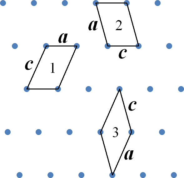 Possible cell choices in the monoclinic crystal system. The a and c vectors lie in the plane, the b vector points below the plane.